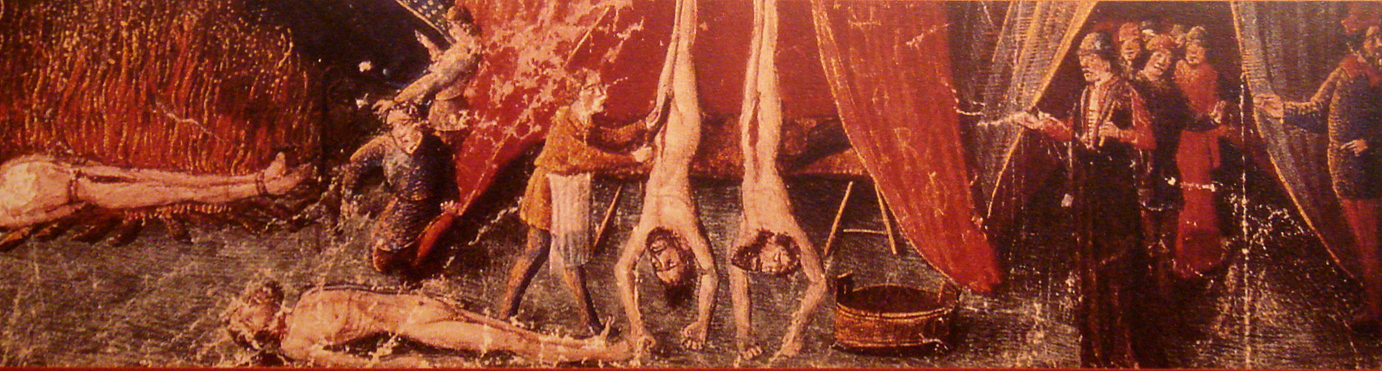 Crusader Executions (Bibliotheque Nationale De France)